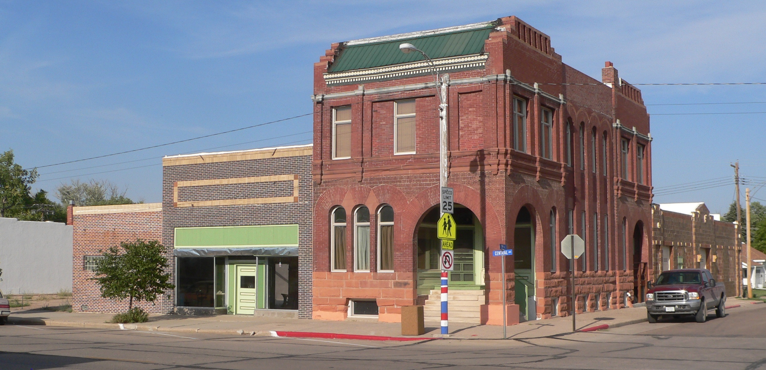 Downtown Grant, Nebraska: northeast corner of 3rd and Central, seen from the southwest. Central Avenue runs northward to the left; 3rd Street runs eastward at the right edge of the photo.